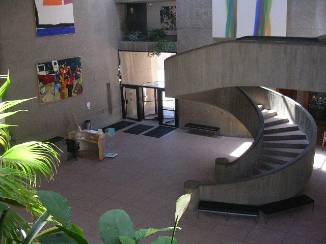 Lobby of the Everson Museum, as seen from the second floor. Taken April 2006.